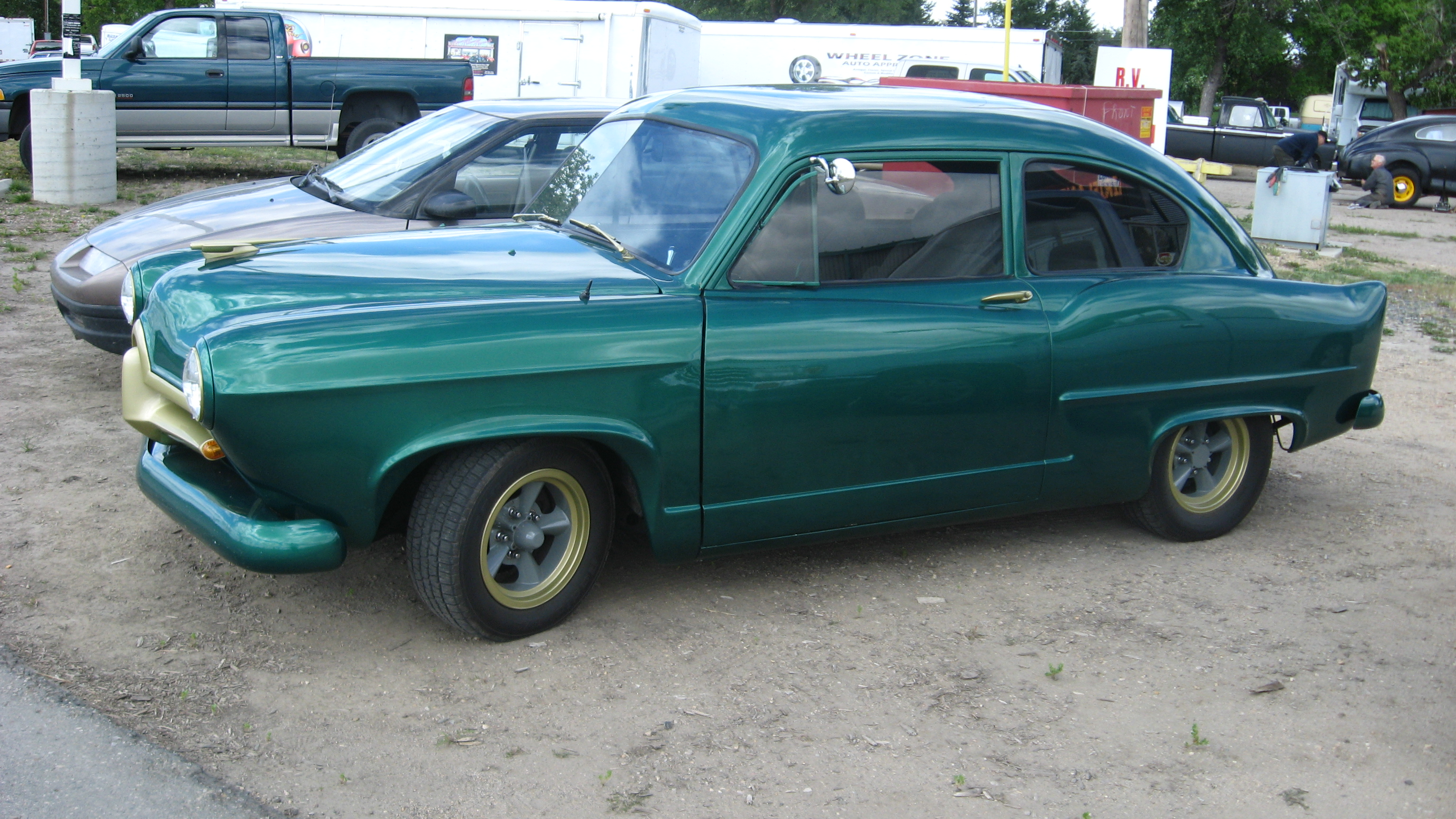 Henry J custom, shot at local car show/swap meet 2008